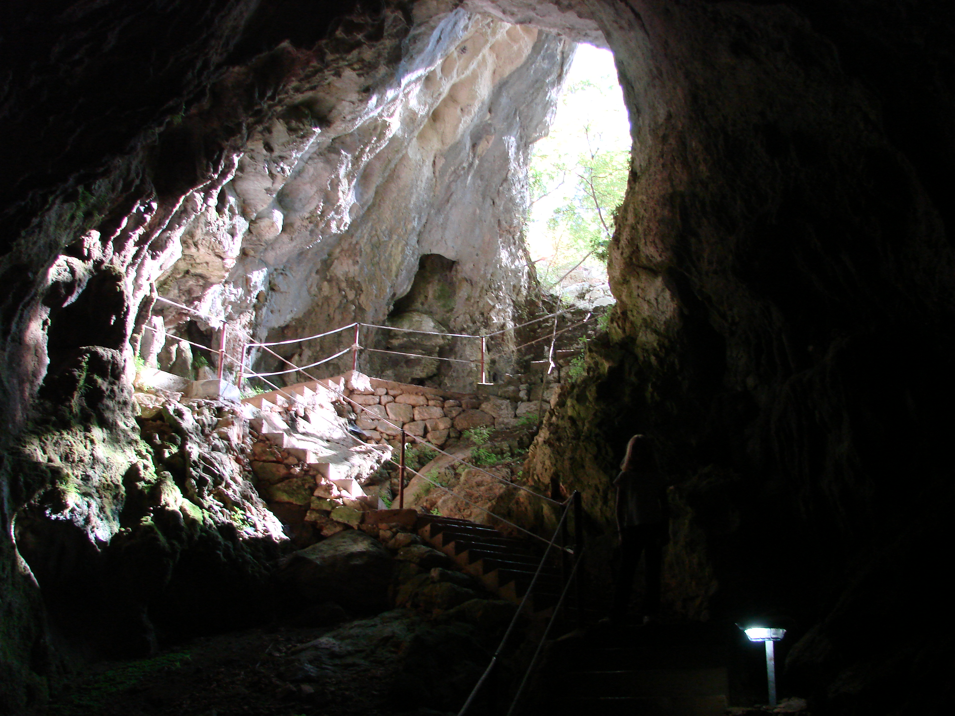 Vranjača cave